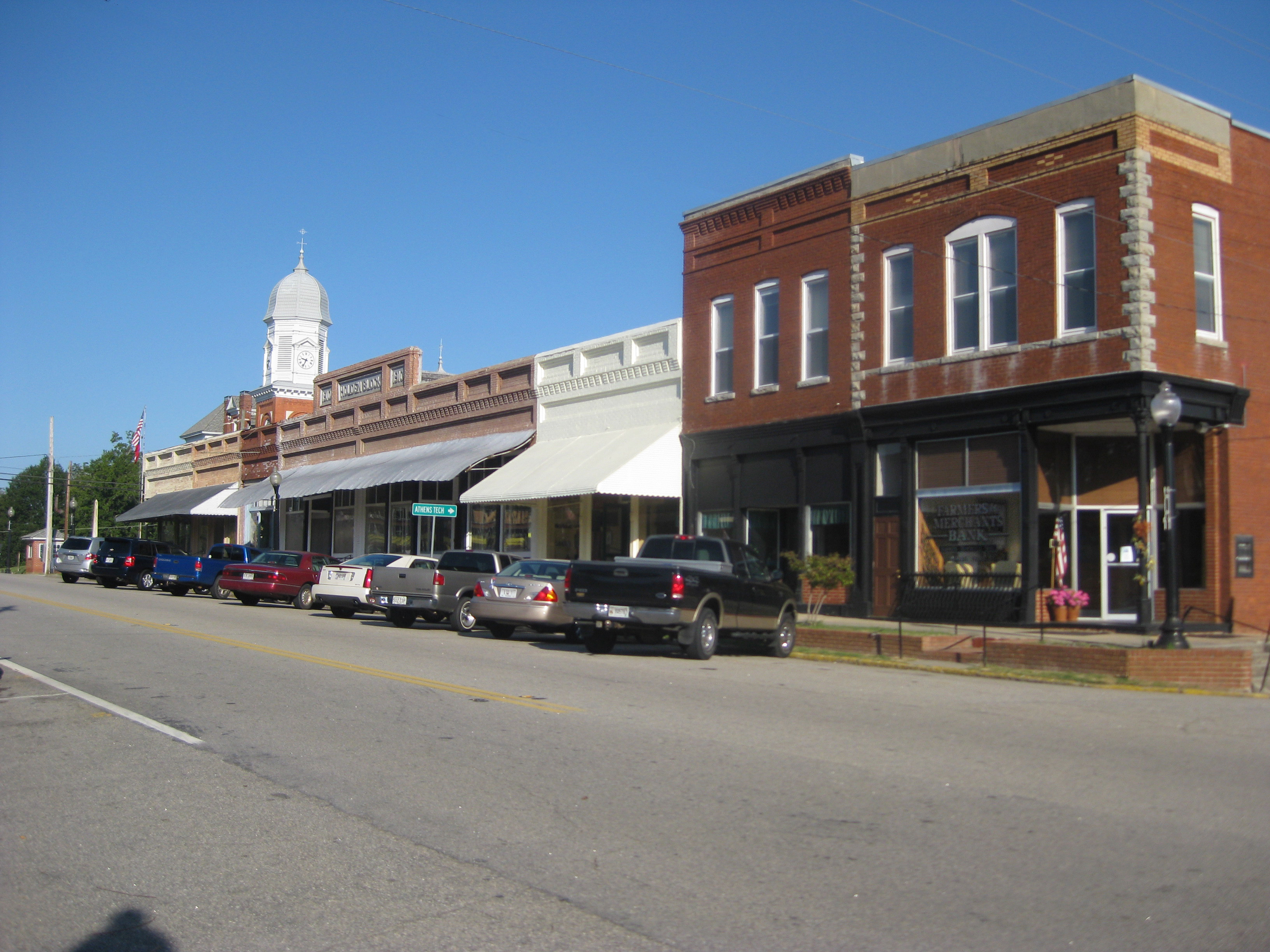 Buildings along Broad Street (U.S. Highway 278) in downtown Crawfordville, Georgia, upon which is centered the Crawfordville Historic District, a U.S. Historic District added to the National Register of Historic Places on March 14, 2006.